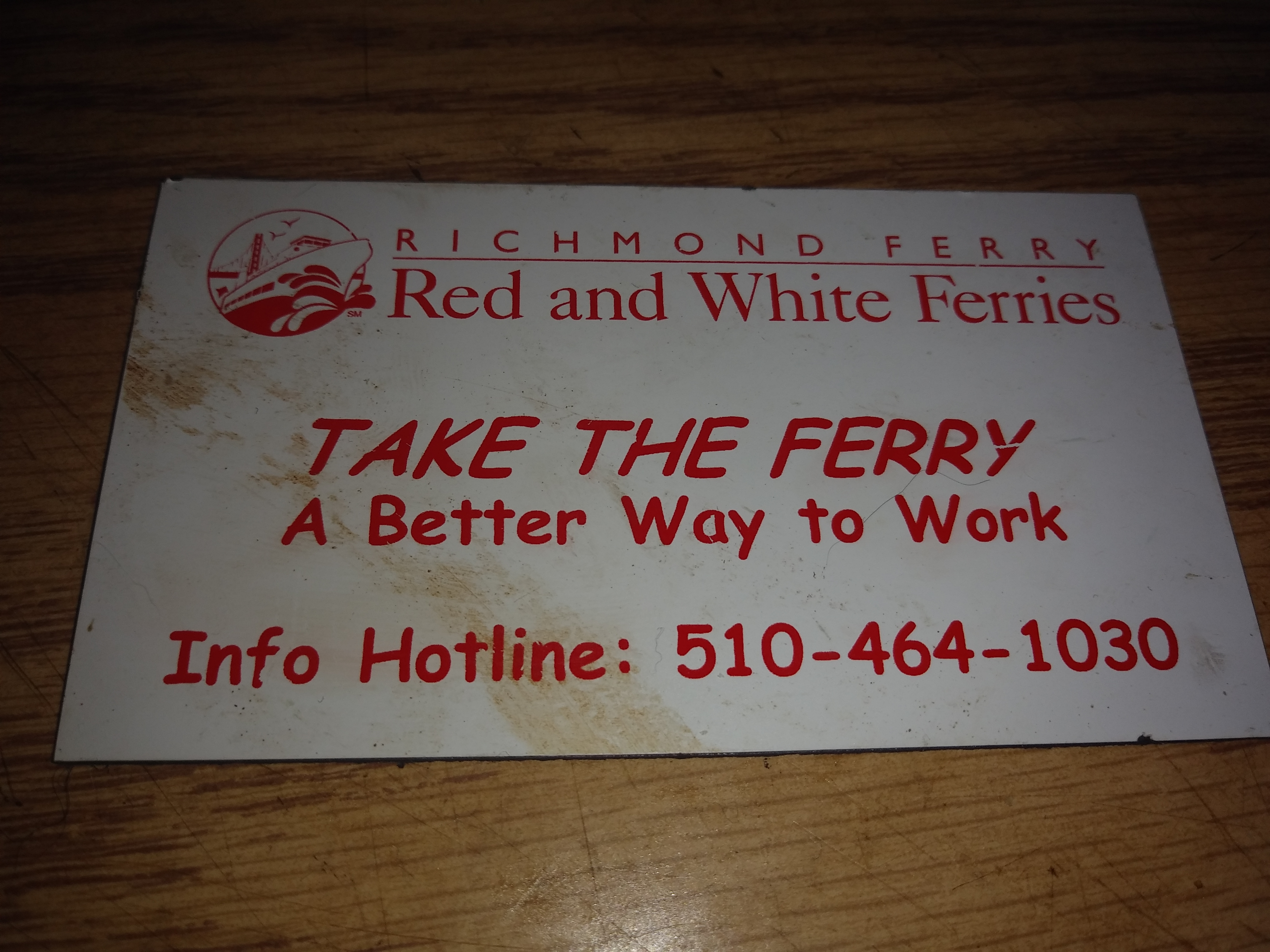 Refrigerator magnet Red and White Fleet ferry service that states "Take the ferry" "A better way to work" and the then info line's number